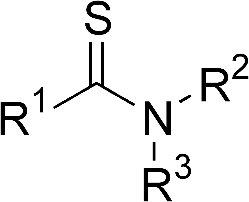 general chemical structure of a thioamide